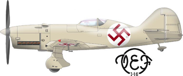 Latvian fighter Vef I-16. Build in 1939 by latvian aviation engineer Kārlis Irbītis.